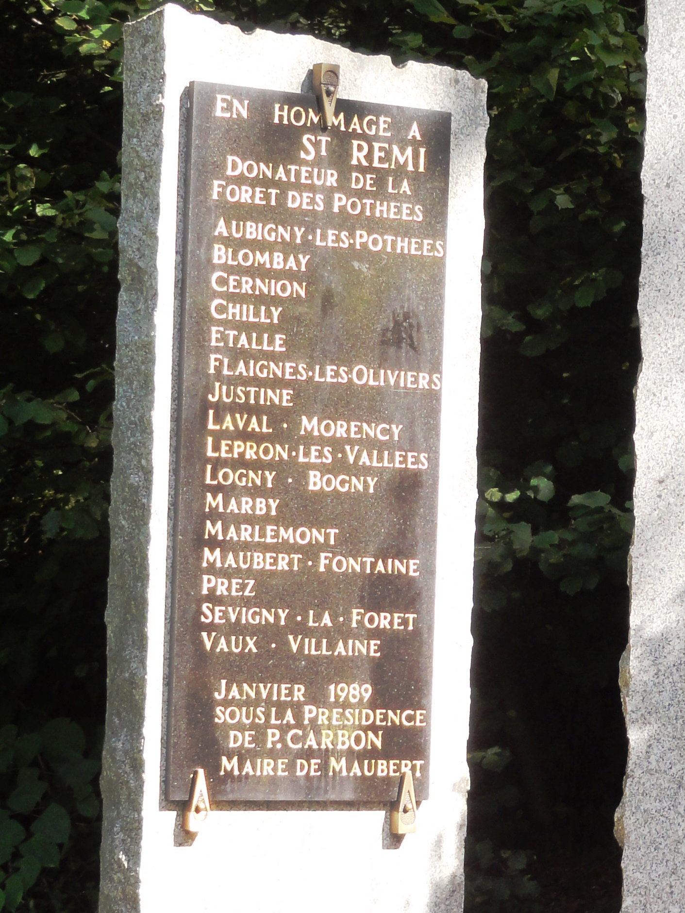 Maubert-Fontaine (Ardennes) memorial Forêt des Pothees, détail texte.